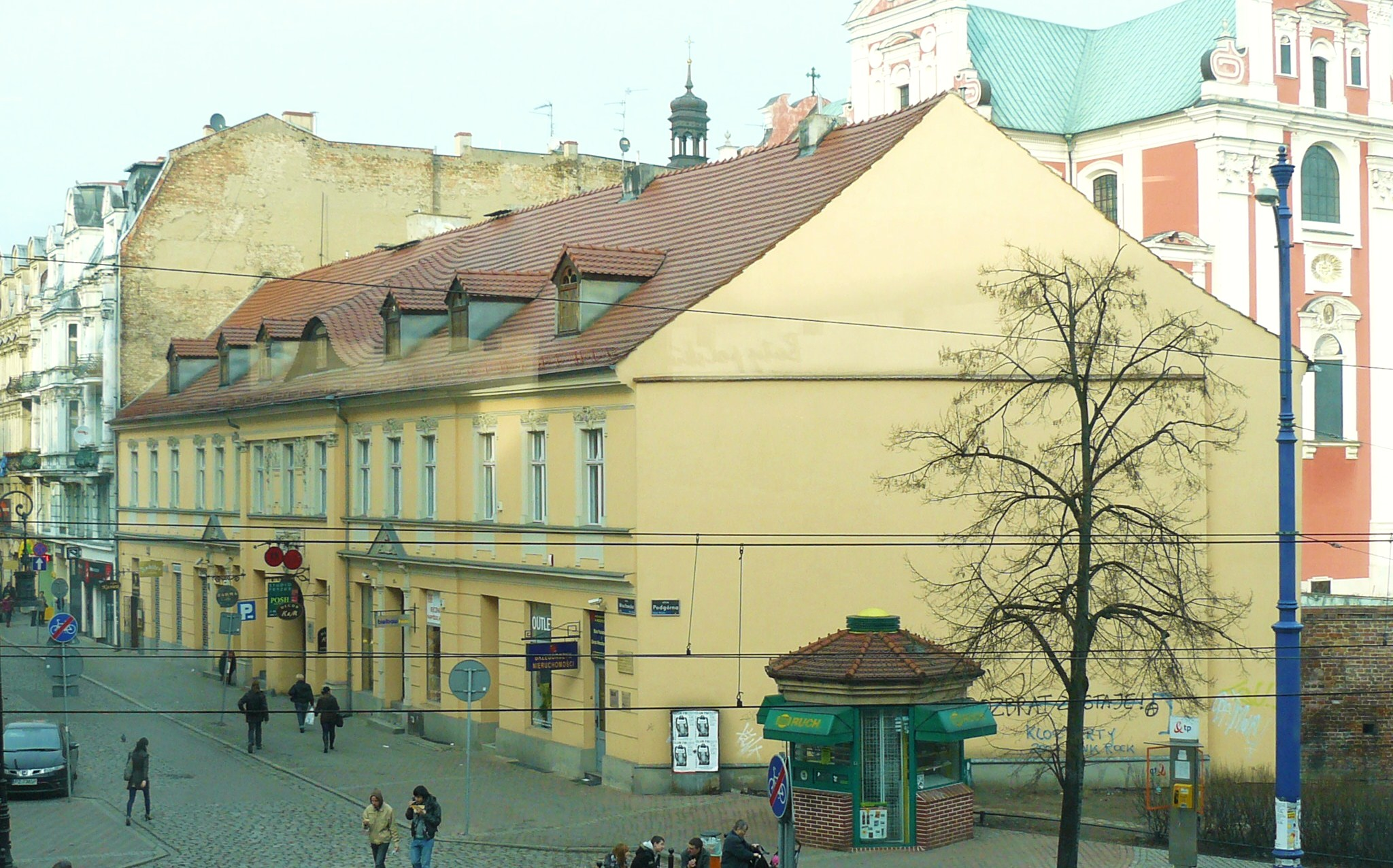 ex Saski Hotel - Poznan, Wroclawska Street